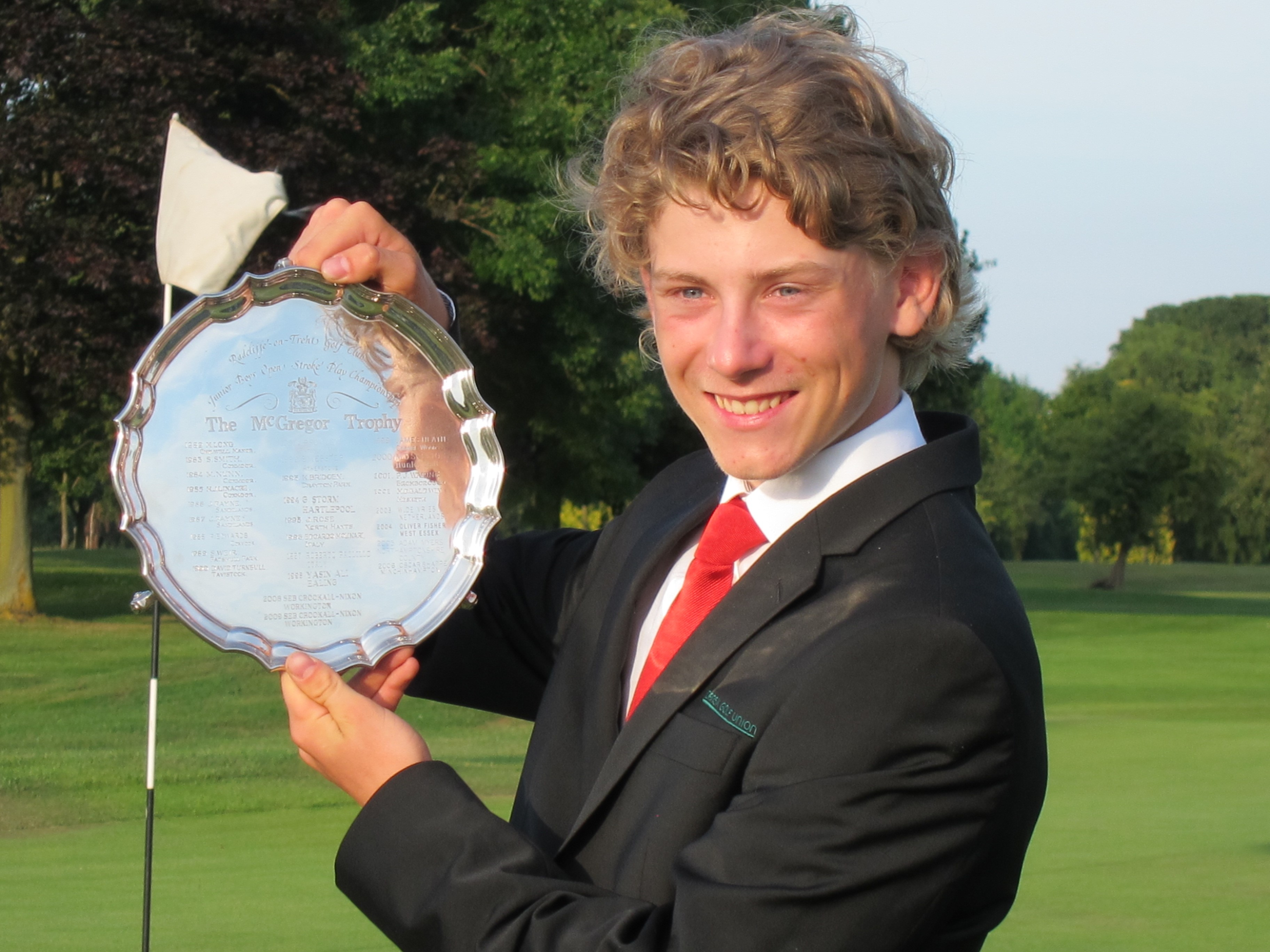 English Boys under 16 McGregor Trophy. Winner 2014 John Axelsen. Setting new course record on Rattcliff-on-Trent and for the event